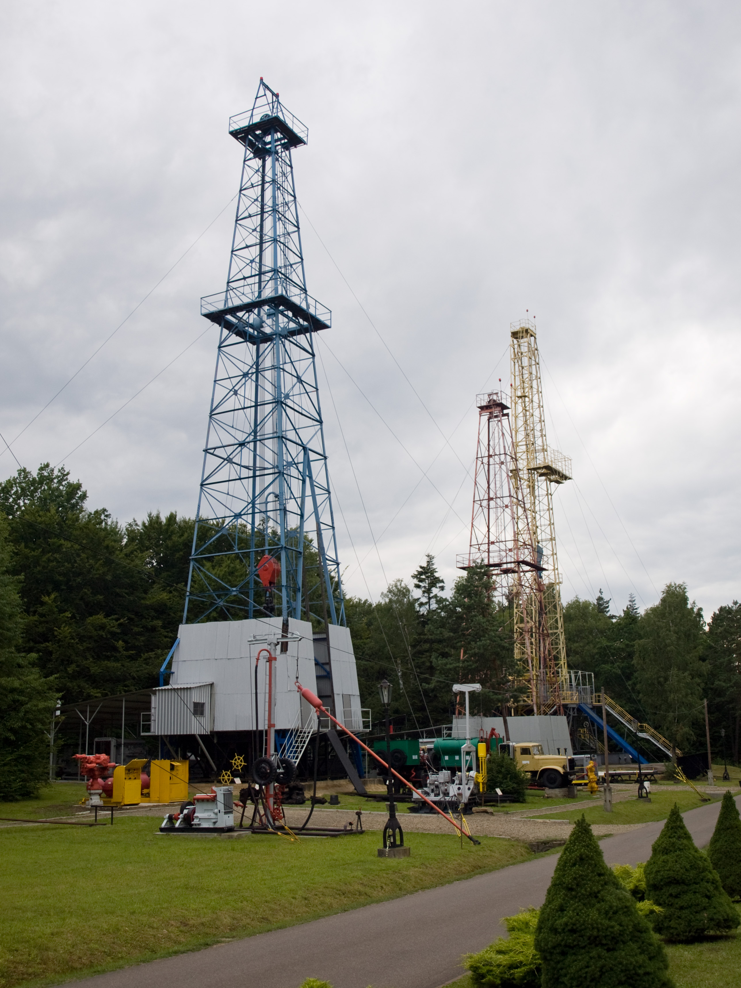 Technical museum, Bóbrka, Subcarpathian Voivodeship